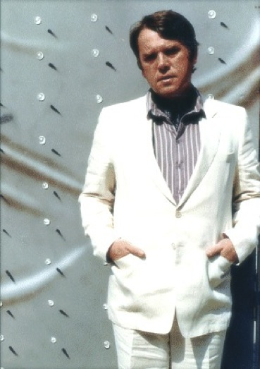 Georg Klusemann at an exhibition in the German city of Xanten